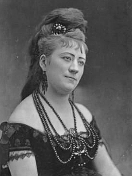 Italian opera singer Antonietta Pozzoni (1846-1914).